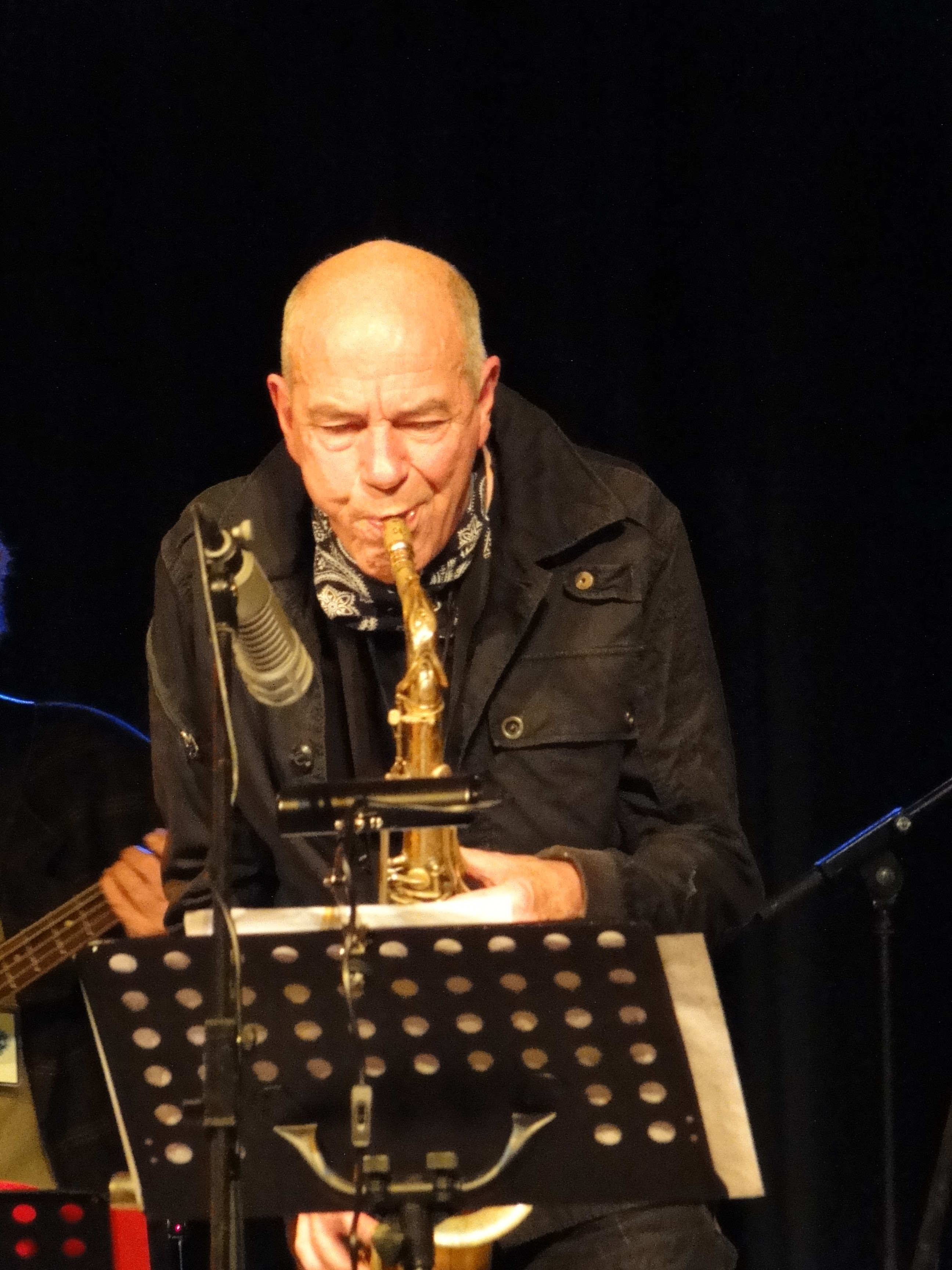 Heinz Sauer, ts, 2009 at "23. Hofheimer Jazzfest" (50th anniversary of "Jazzkeller-Hofheim"), Hofheim, Hesse, Germany